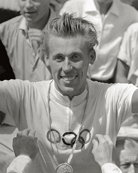 A man presenting the gold medal to Victor Kapitonov, the Soviet cyclist who won the gold medal on the individual road race. Rome, 1960